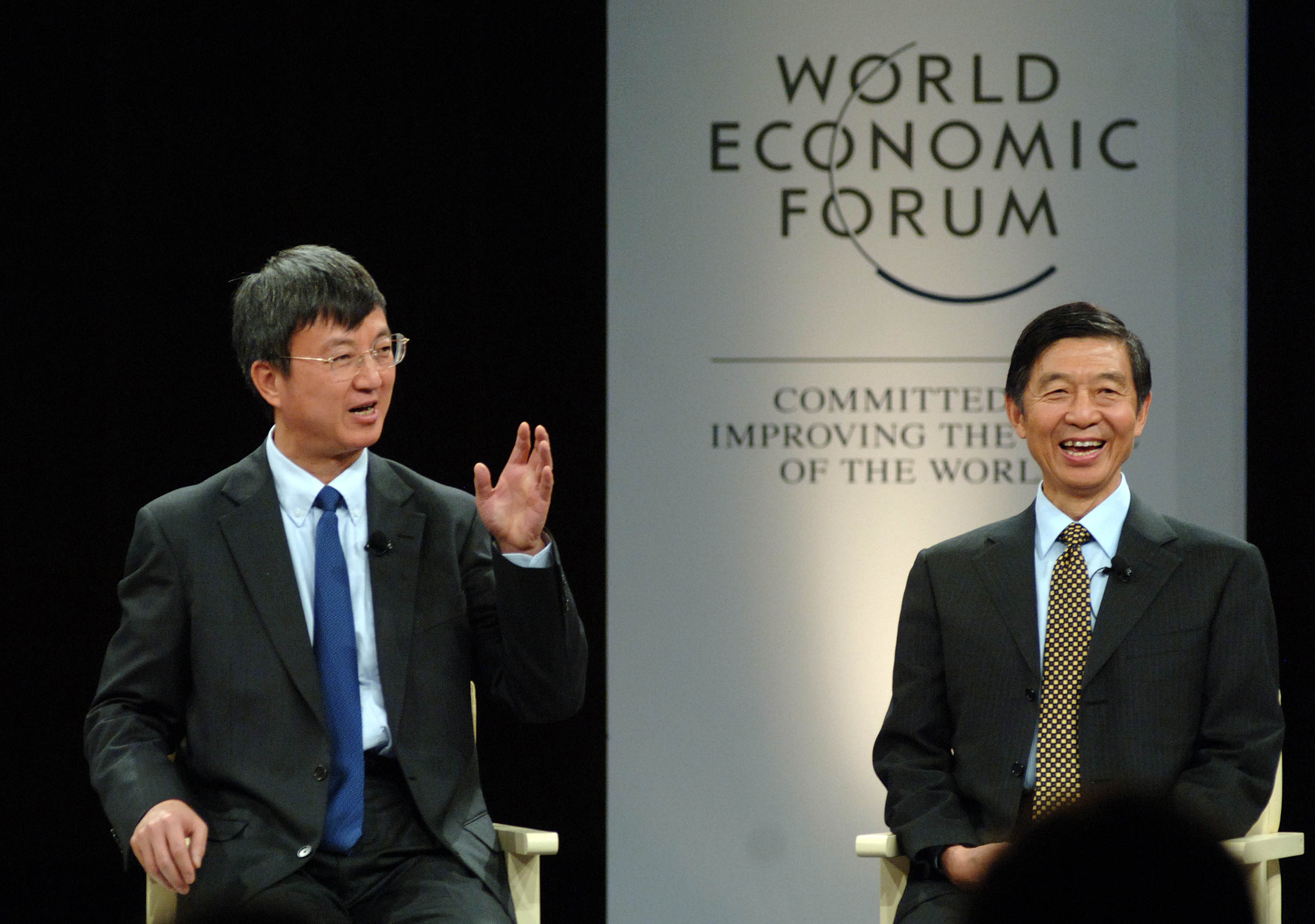 TIANJIN/CHINA, 28SEPT08 - Zhu Min (left), Group Executive Vice-President, Bank of China, and Wu Jianmin (right), Honorary President, International Exhibitions Bureau, the BBC Debate at the World Economic Forum Annual Meeting of the New Champions in Tianjin, China 28 September 2008. Copyright World Economic Forum ( by Adam Nadel